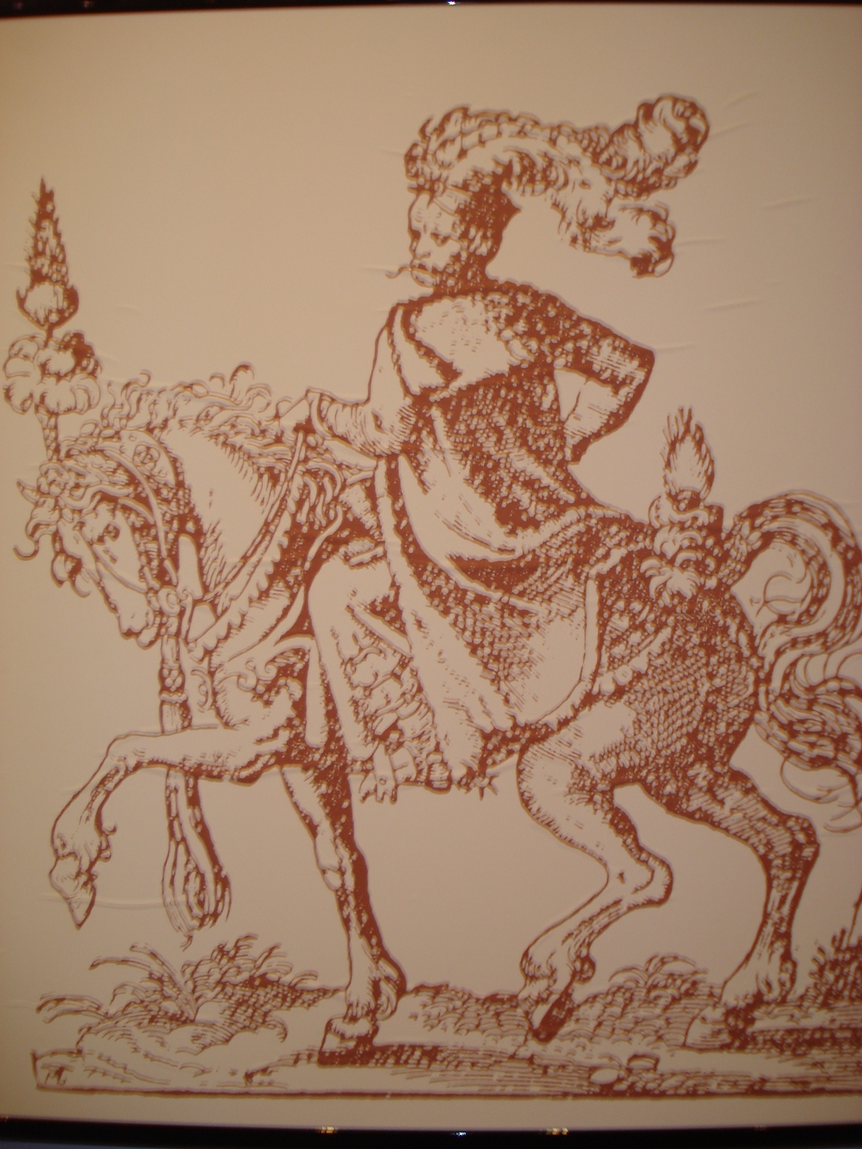 Count Juraj IV Zrinski /George IV Zrinski/ (1549-1603) as equestrian